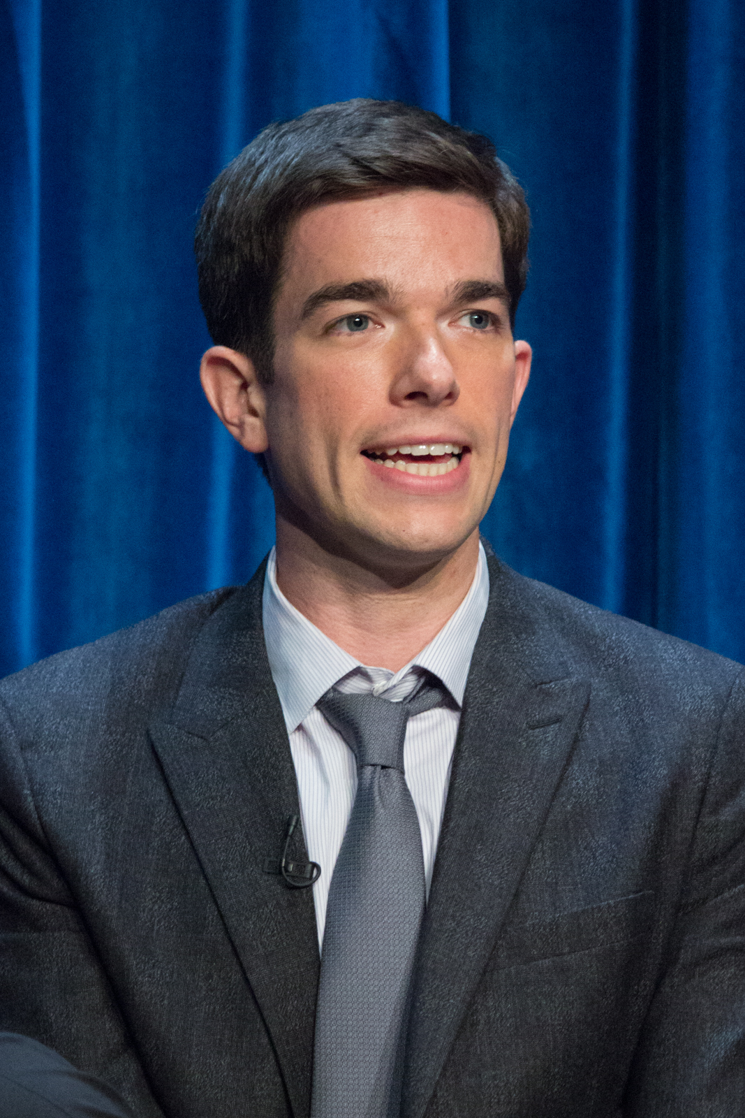 John Mulaney at PaleyFest Fall TV Previews 2014 for the TV show "Mulaney"